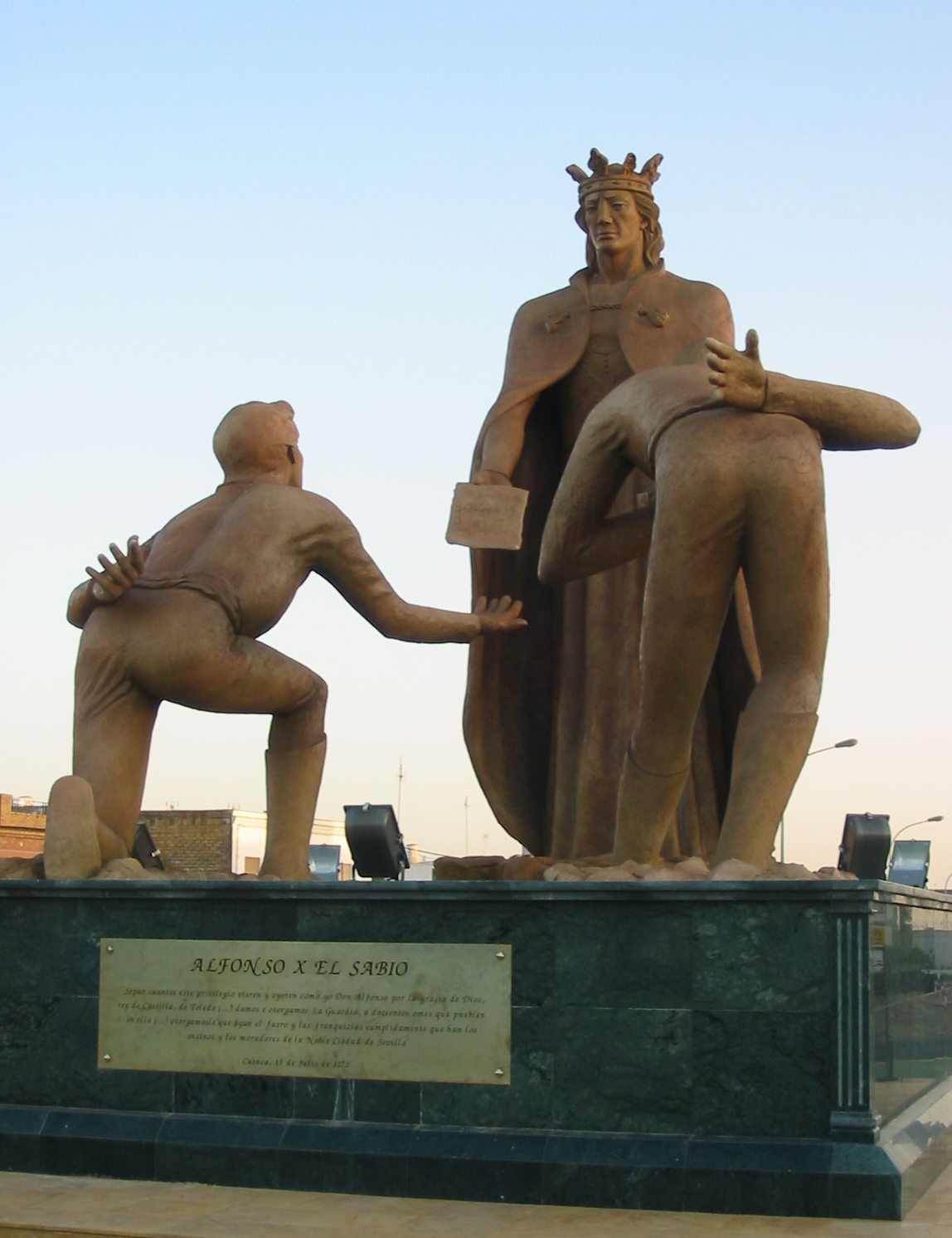 Monument to Alfonso X El Sabio, La Puebla del Río, Seville. Photo by E Asterion u talking to me?